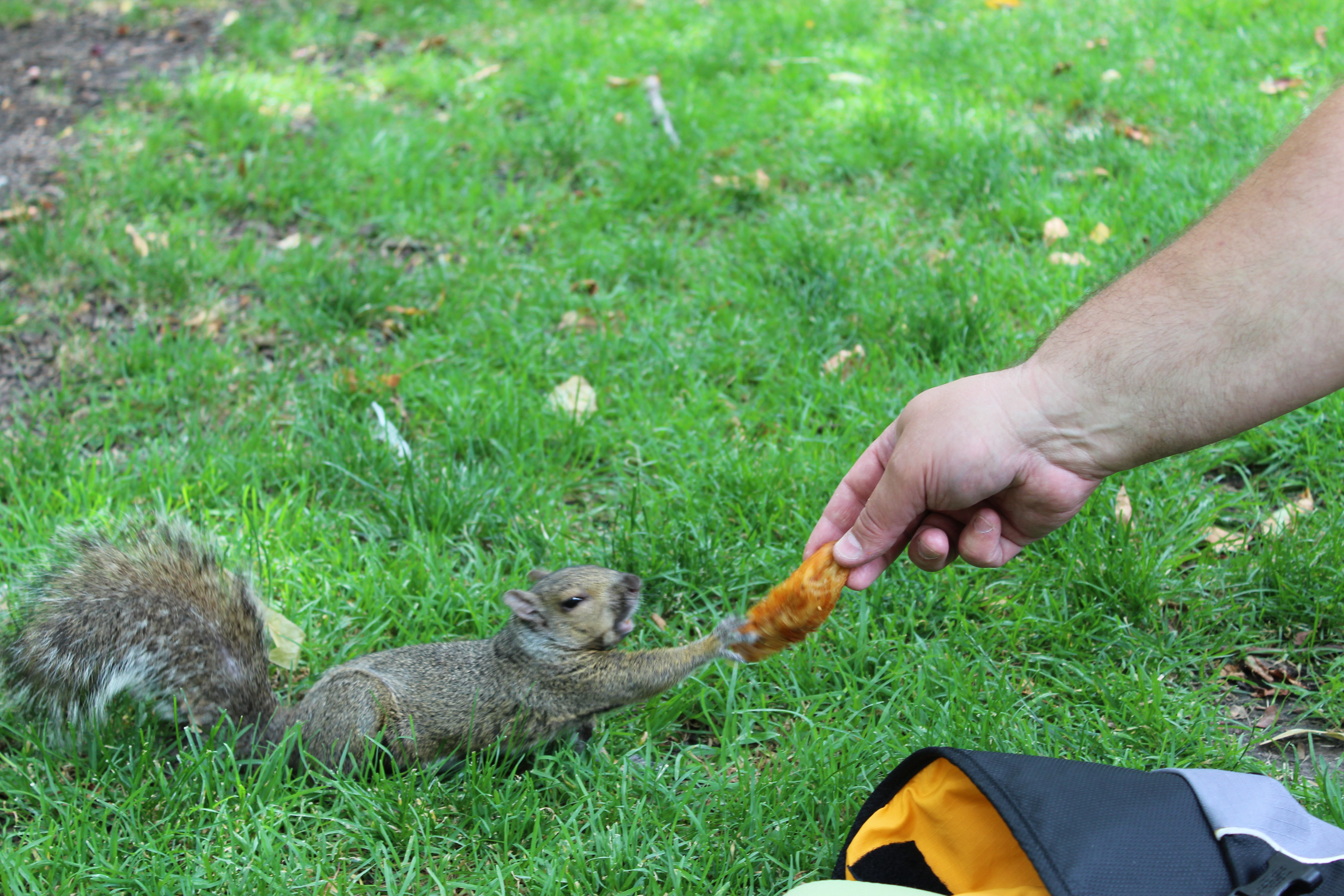 Sqwiki the Squirrel eating a french fry out of the hand of User:Jack Sebastian at Wikipedia:Meetup/Chicago 6